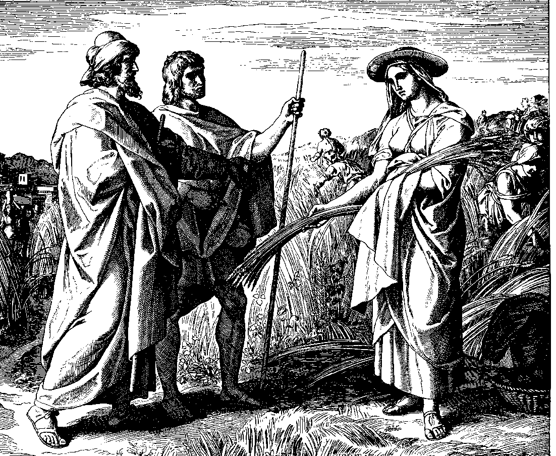 Woodcut for "Die Bibel in Bildern", 1860.